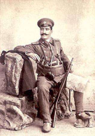 SMAC revolutionary